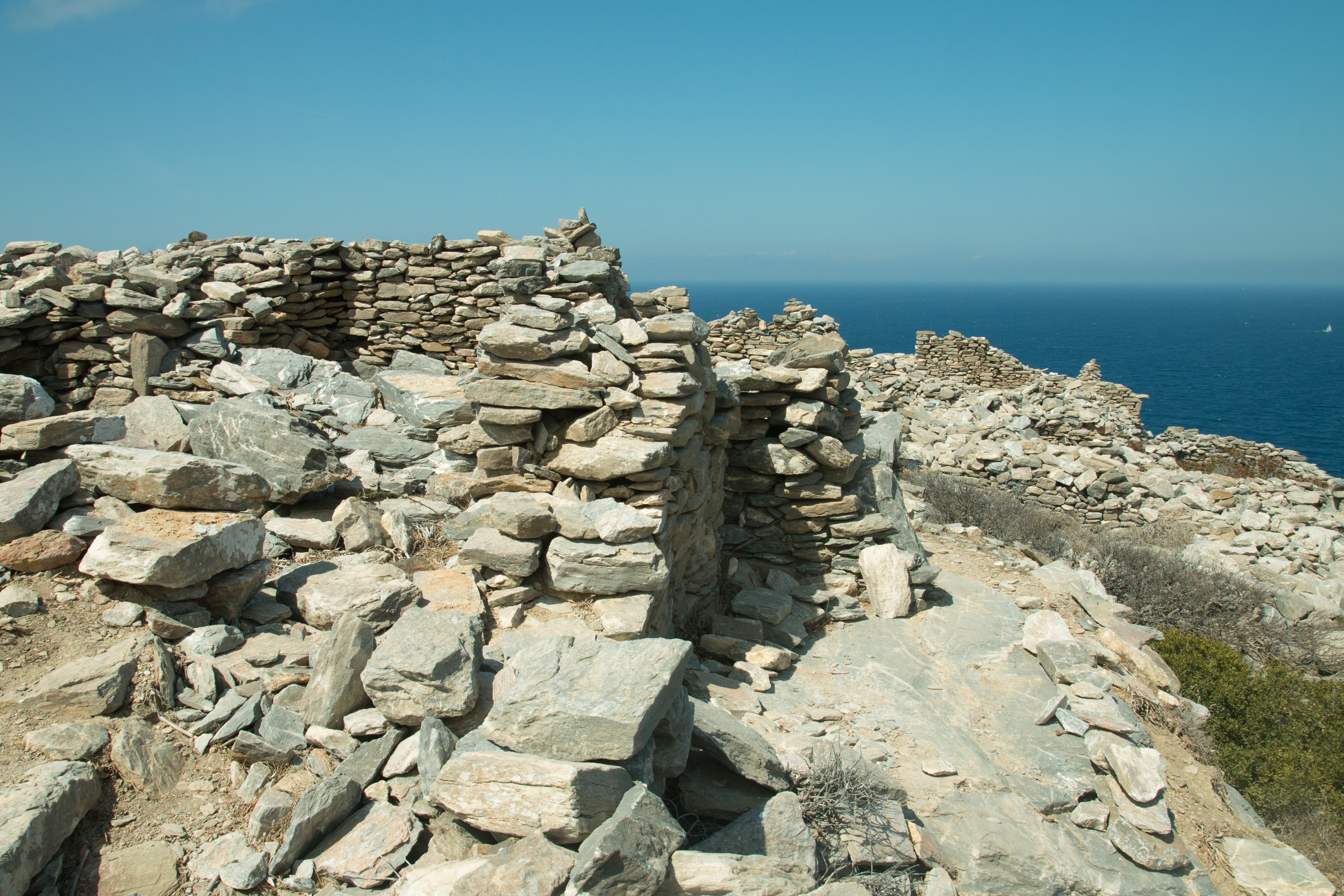 The platform of the former acropolis of Ancient Arkesini is filled with walls, remains of buildings and piles of stones from very different times. Amorgos.